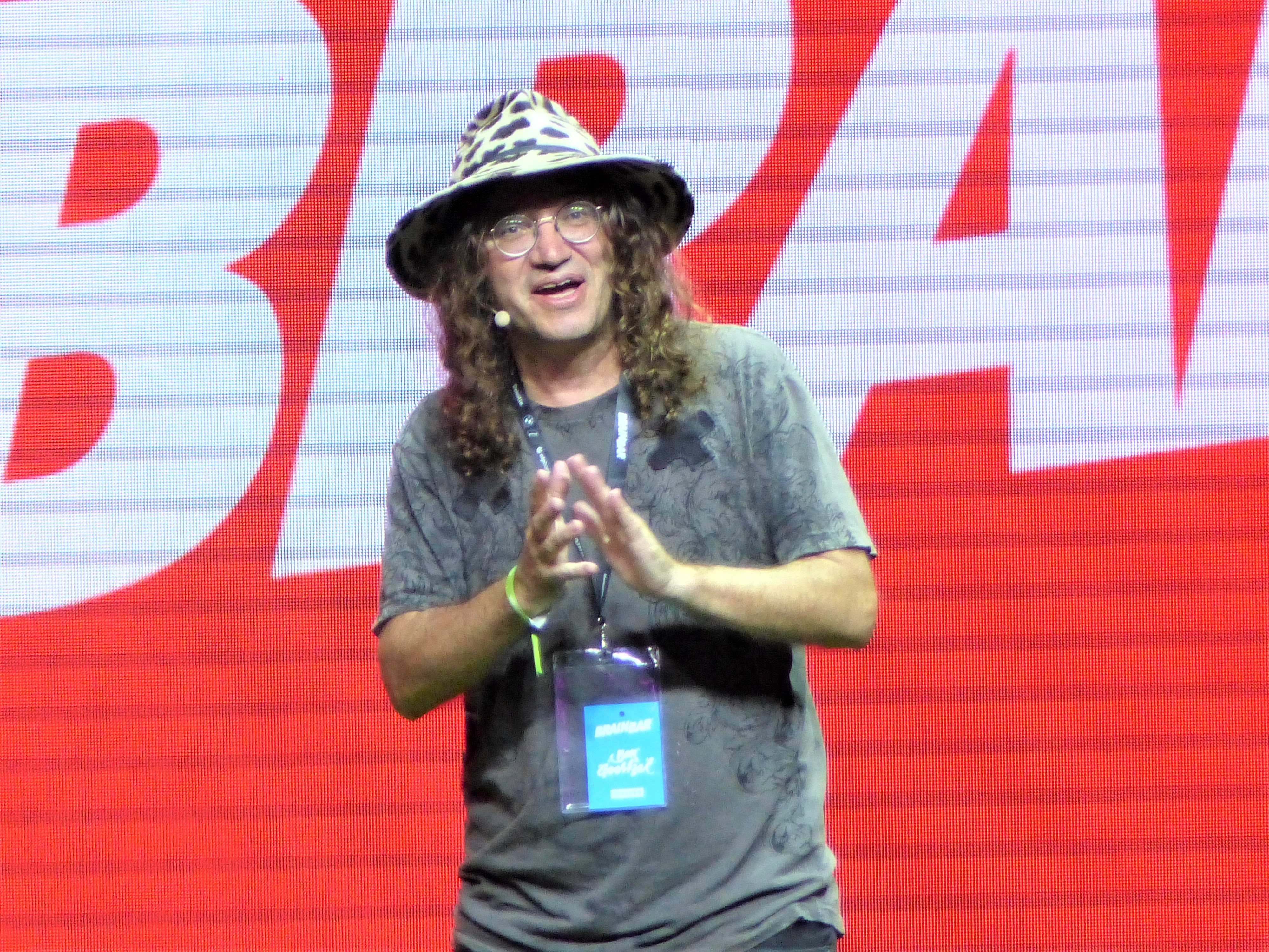 Ben Goertzel CEO of SingularityNET, Chief scientist of Hanson Robotics, co-creator of Sophia - ARMY OF SOPHIAS Would you live forever as a digital copy? Taken on the 30th of May, 2019. Brain Bar 2019, the first day - Big Hall. Corvinus University, Central Europe.